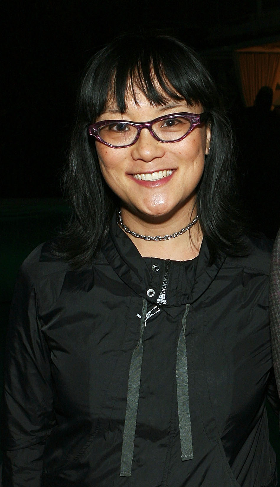 Director Mina Shum attends The Canadian Film Centre cocktail reception celebrating the Telefilm Canada Features Comedy Lab held at Avalon Hotel on March 9, 2011 in Beverly Hills, California.